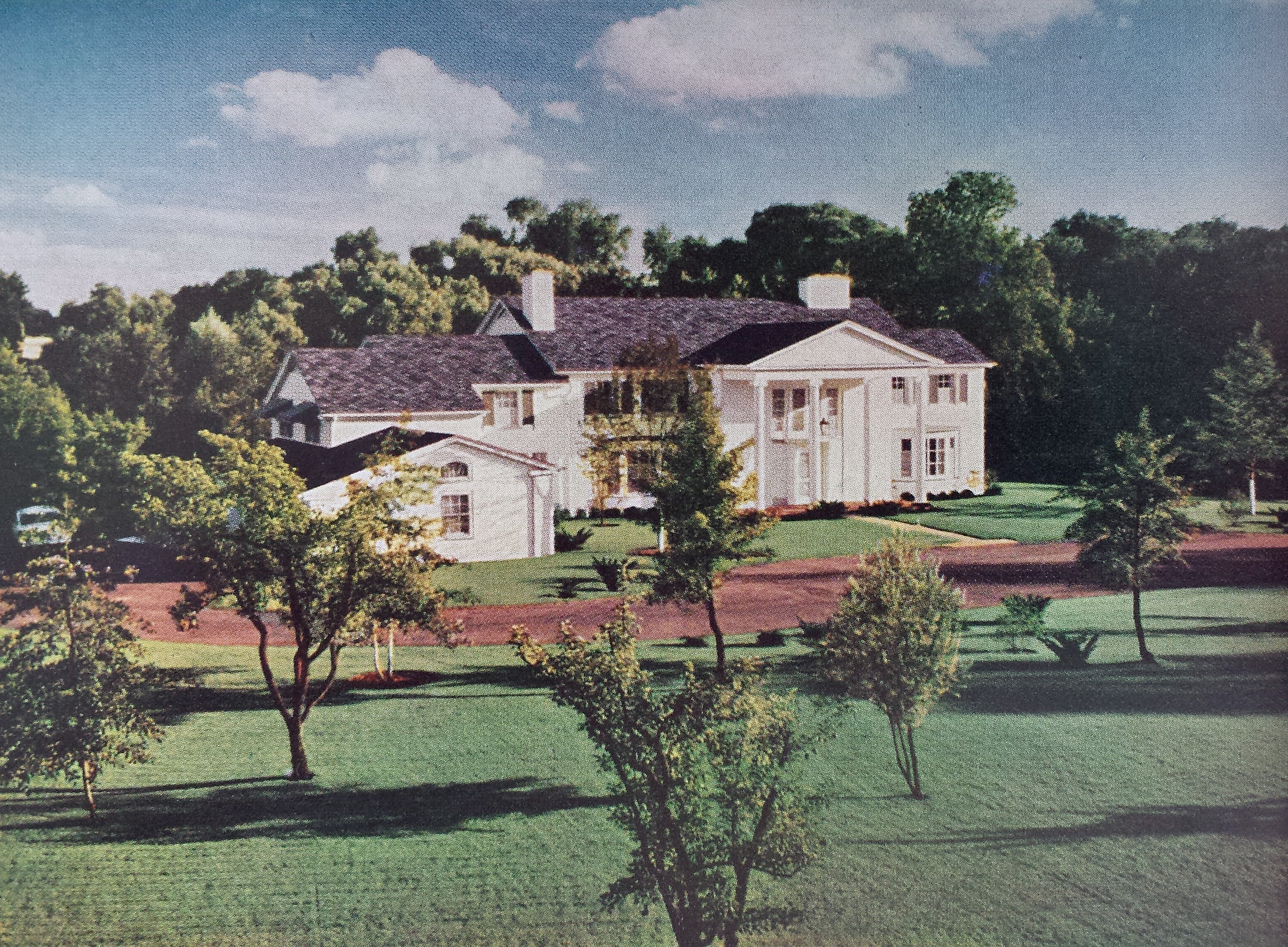 L. Clifford Goad House, Bloomfield Hills, Michigan Hugh T. Keyes, Architect 1955